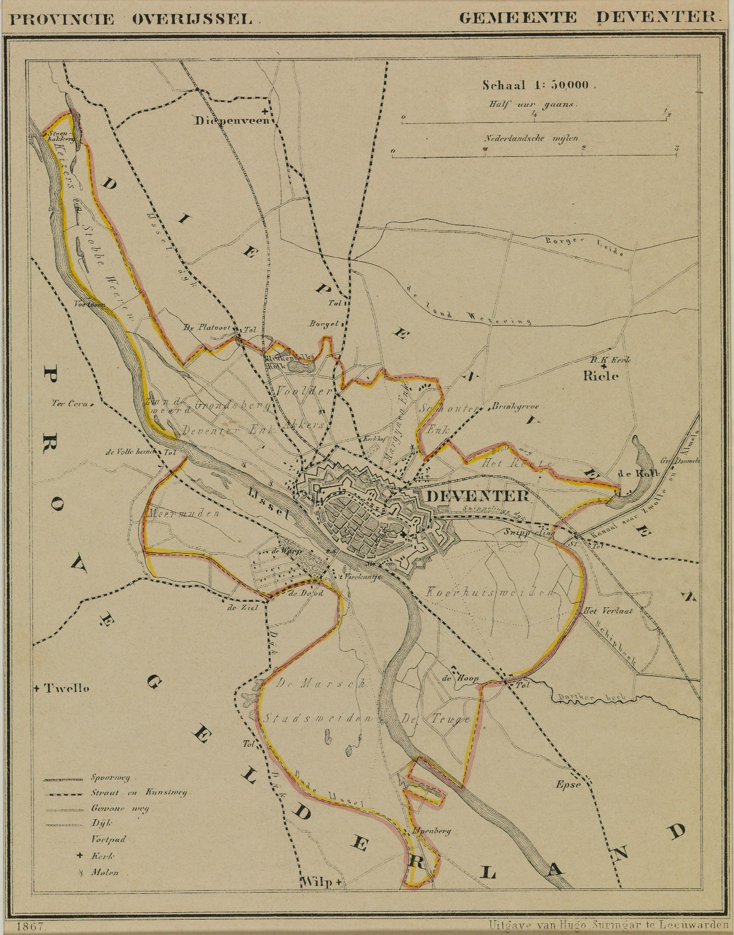 Map of the city and municipality of Deventer, 1867 (Province of Overijssel, Netherlands).